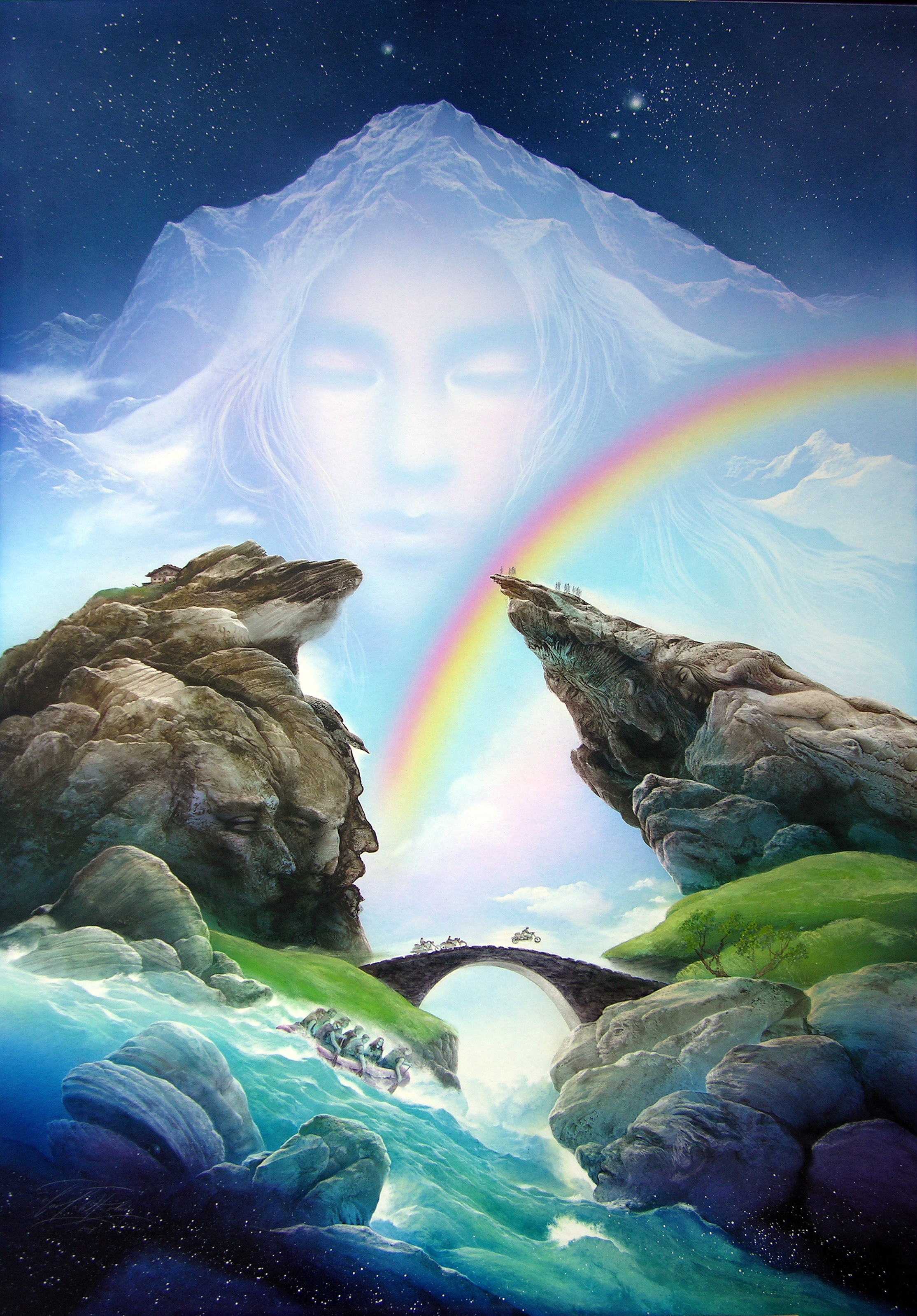 La Montanara 2007